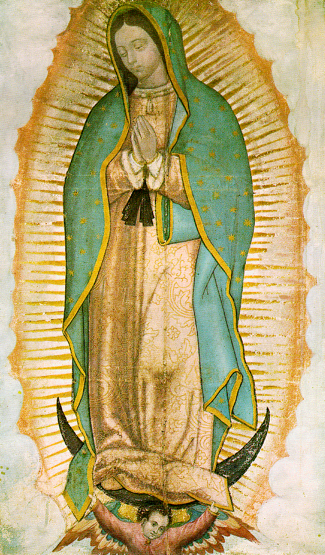 Photograph of an image of the tilma of Our Lady of Guadalupe, taken in 1994. Released to public domain.